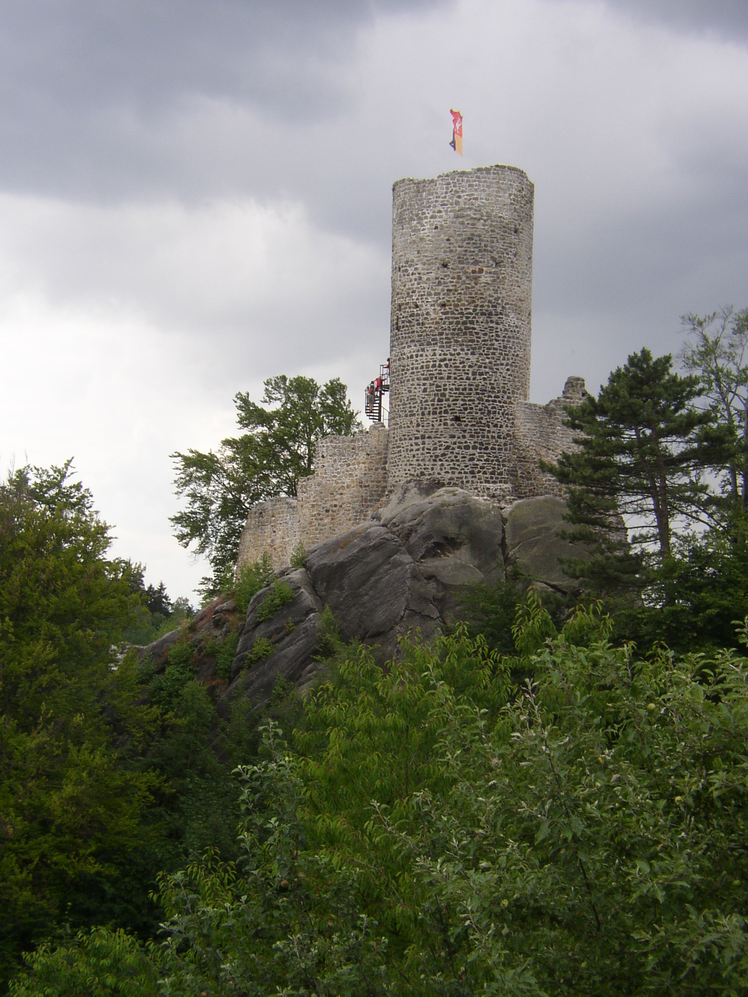 Frýdštejn castle, 8 km south of Jablonec nad Nisou, Czech Republic view from north photo taken by Miaow Miaow in July 2004